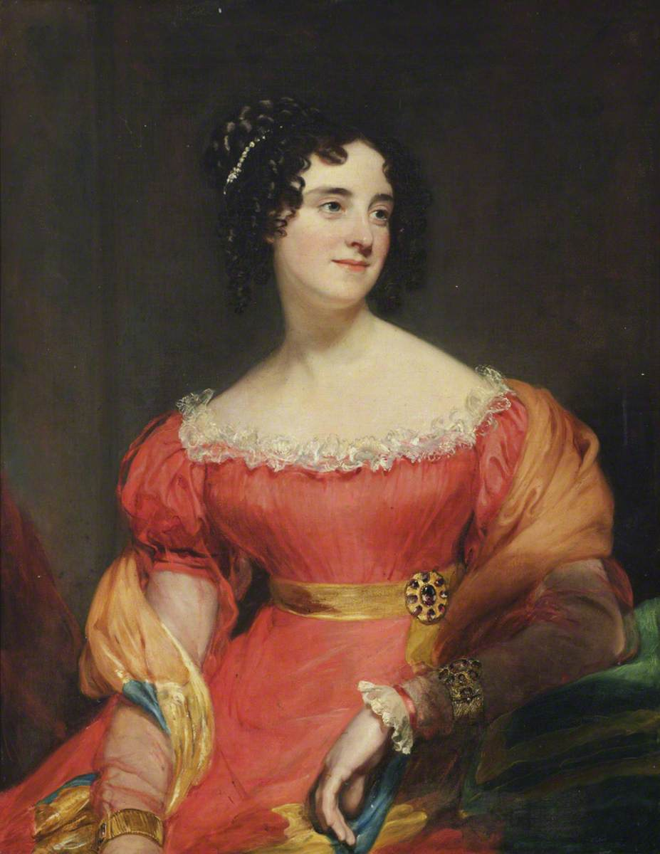 Portrait of Georgiana Carolina Dashwood (1796–1835), Lady Hastings